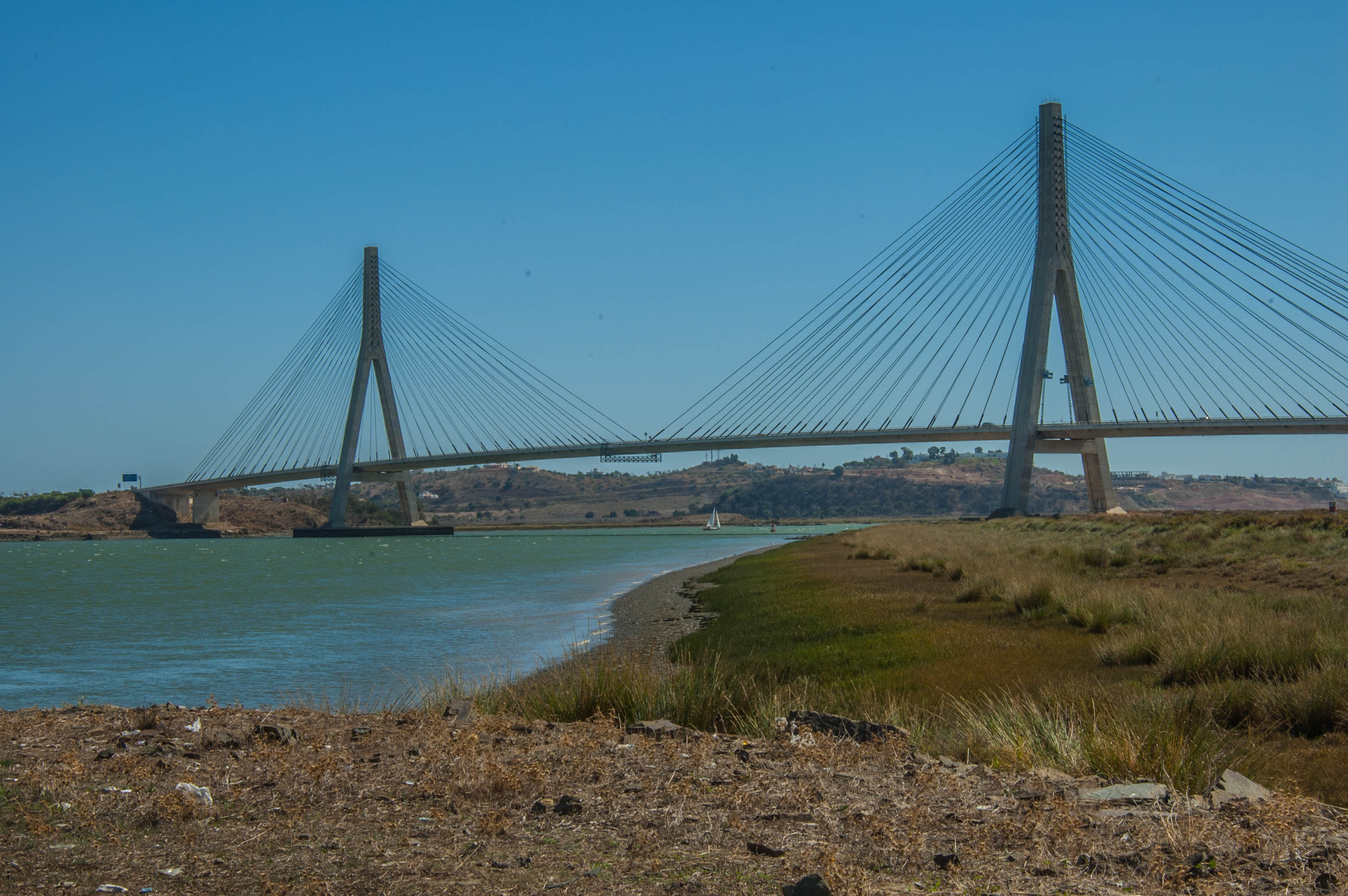 The bridge joining Portugal with Spain